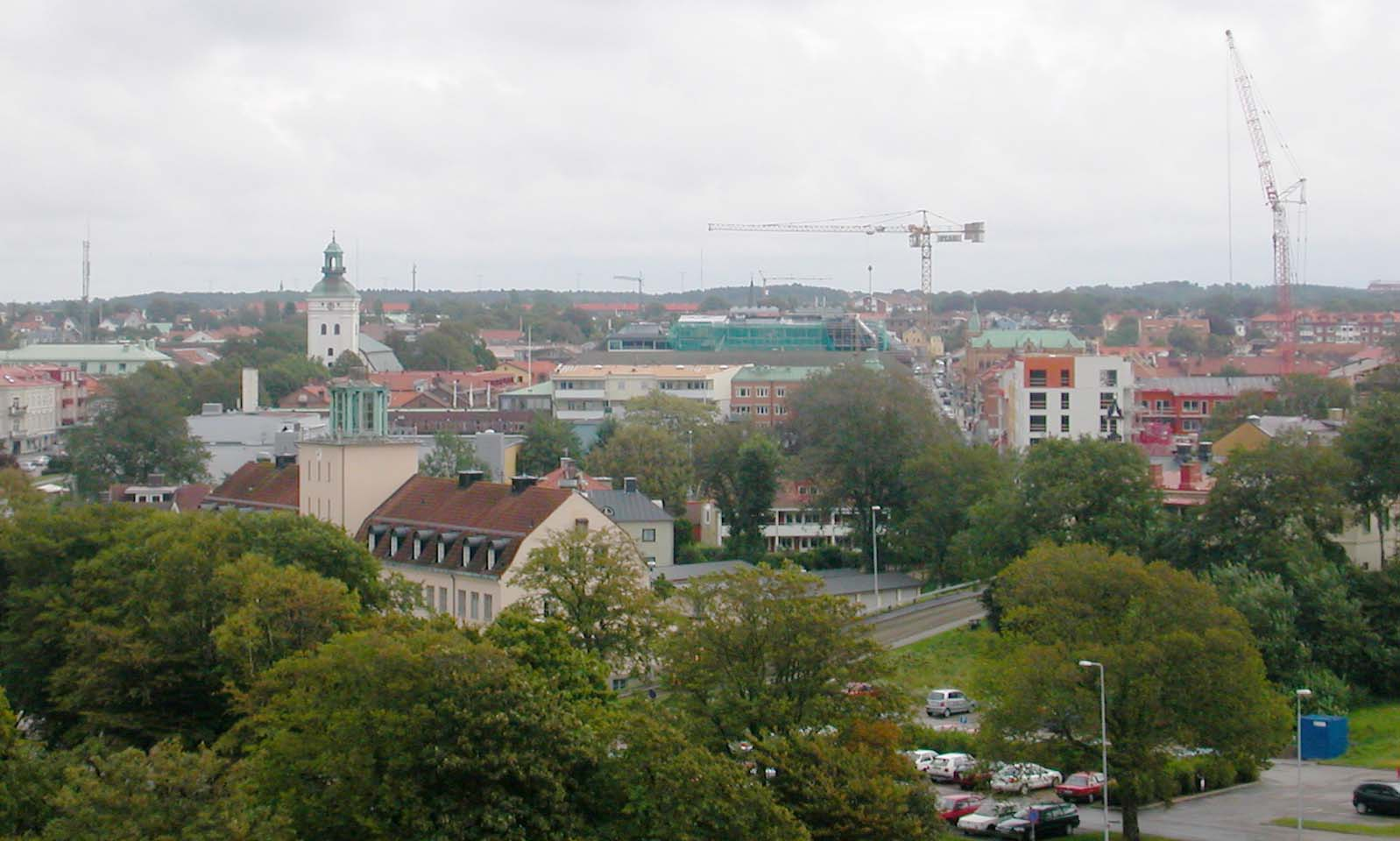 View of Varberg, Sweden, photo taken from Varberg Fortress.